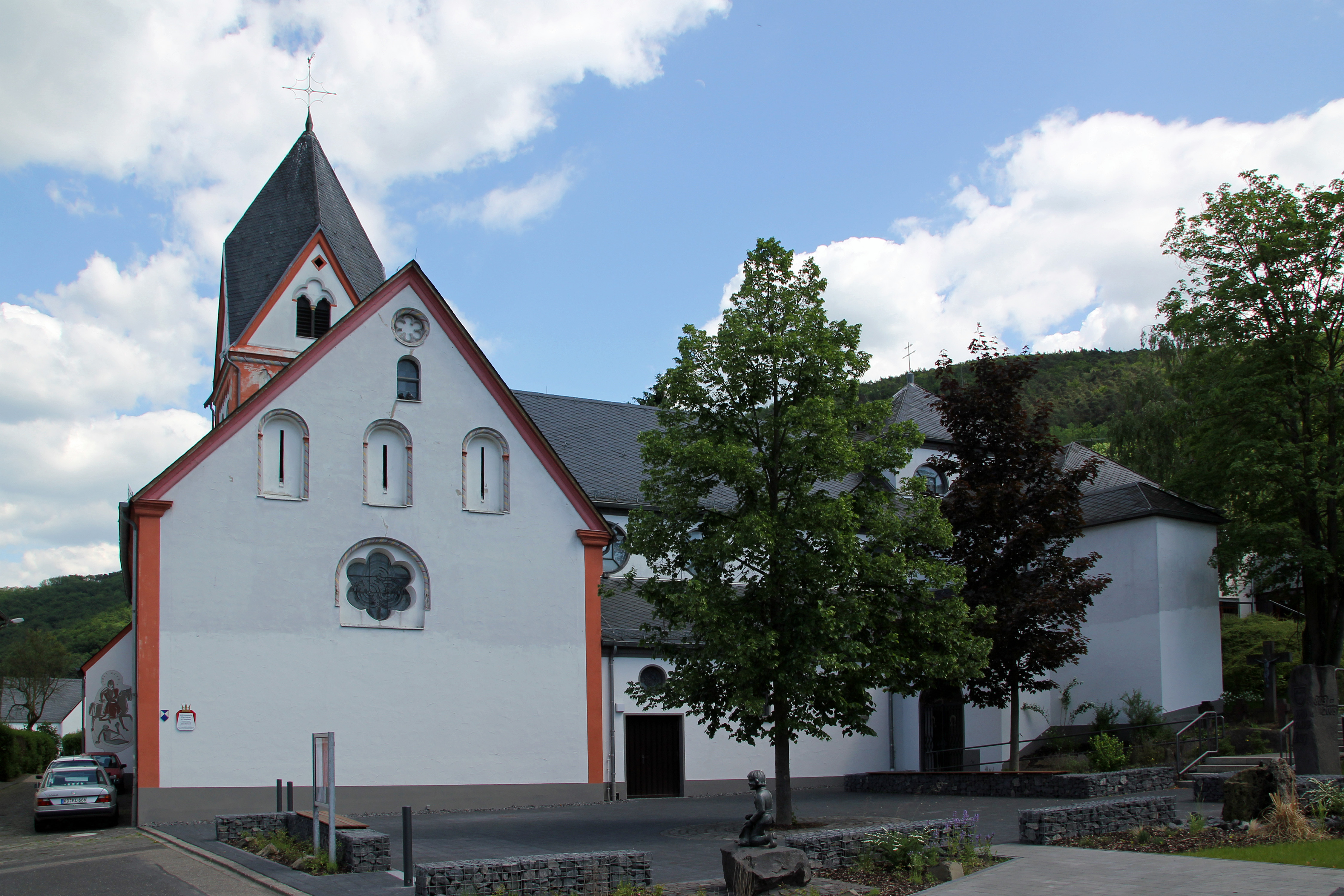 St. Martinus church in Koblenz